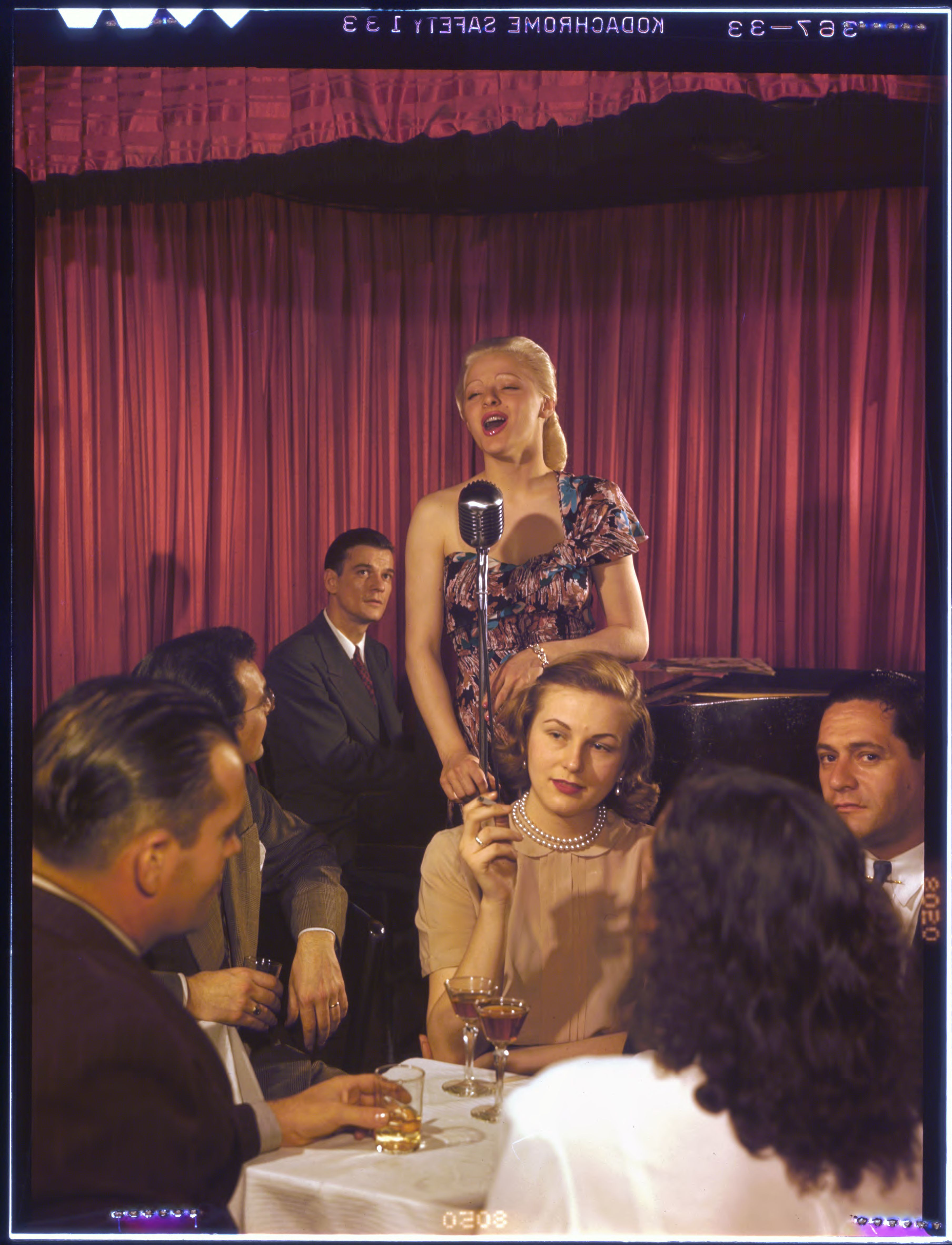 Gottlieb, William P., 1917-, photographer. [52nd Street, New York, N.Y., ca. 1948] 1 transparency : film, color. ; 3 1/4 x 4 1/4 in. Notes: Gottlieb Collection Assignment No. 504 Purchase William P. Gottlieb Forms part of: William P. Gottlieb Collection (Library of Congress). Subjects: Women jazz musicians--1940-1950. Jazz singers--1940-1950. Fifty-second Street (New York, N.Y.)--1940-1950. Format: Portrait photographs--1940-1950. Group portraits--1940-1950. Film transparencies--1940-1950. Rights Info: Mr. Gottlieb has dedicated these works to the public domain, but rights of privacy and publicity may apply. Repository: (transparency) Library of Congress, Prints & Photographs Division, Washington D.C. 20540 USA, Part Of: William P. Gottlieb Collection (DLC) 99-401005 General information about the Gottlieb Collection is available at Persistent URL: Call Number: LC-GLB04- 1132 This work is from the William P. Gottlieb collection at the Library of Congress. Rights and restrictions.In accordance with the wishes of William Gottlieb, the photographs in this collection entered into the public domain on February 16, 2010.